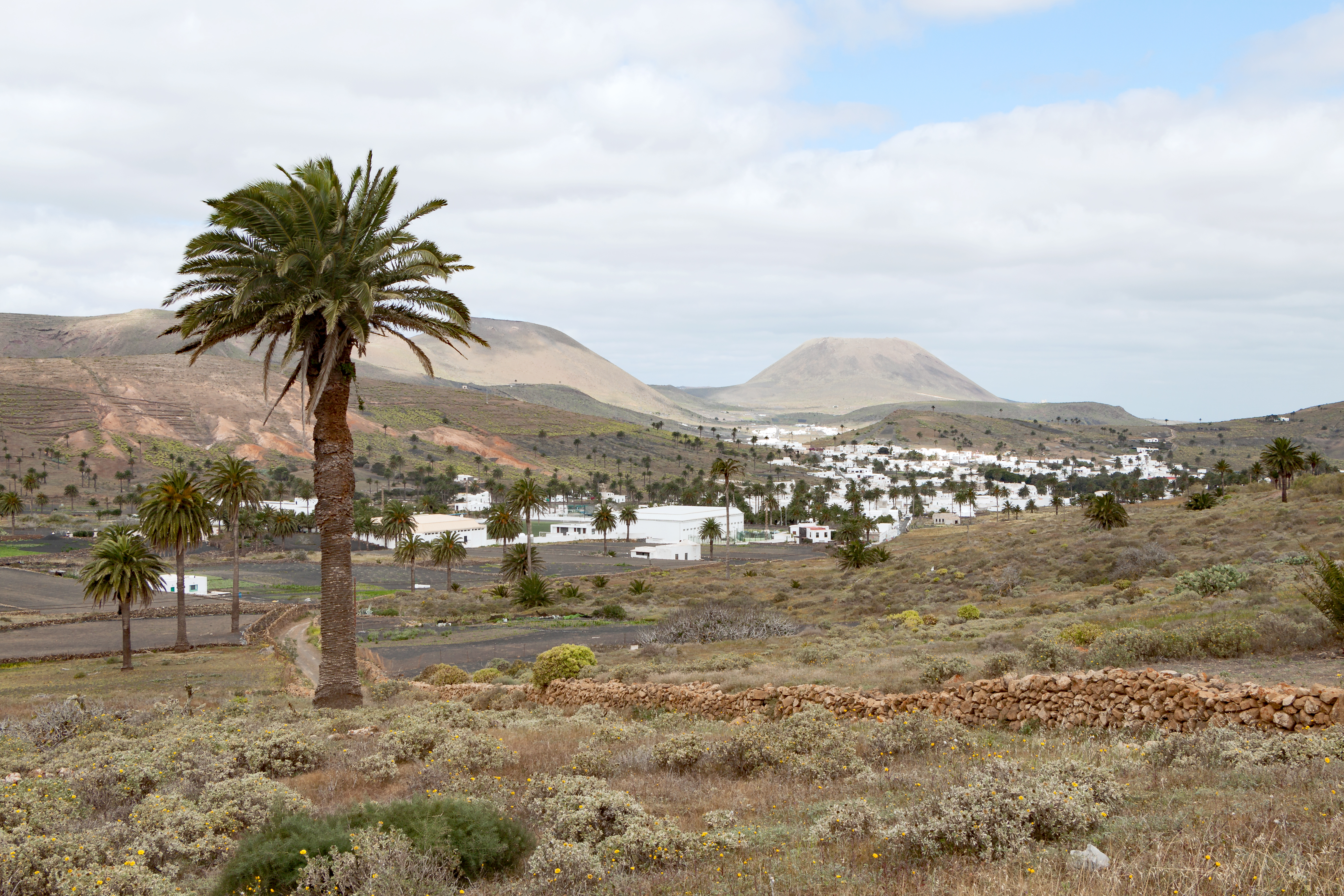 Phoenix canariensis Chabaud (1882), nom. cons. prop., Canary Island Date Palm; Haria, Lanzarote, Canary Islands, Spain.